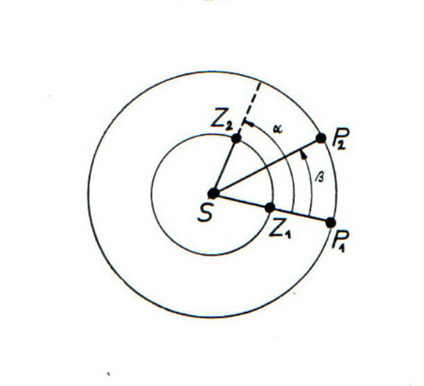 The relation between sidereal and synodic orbital period of a planet.